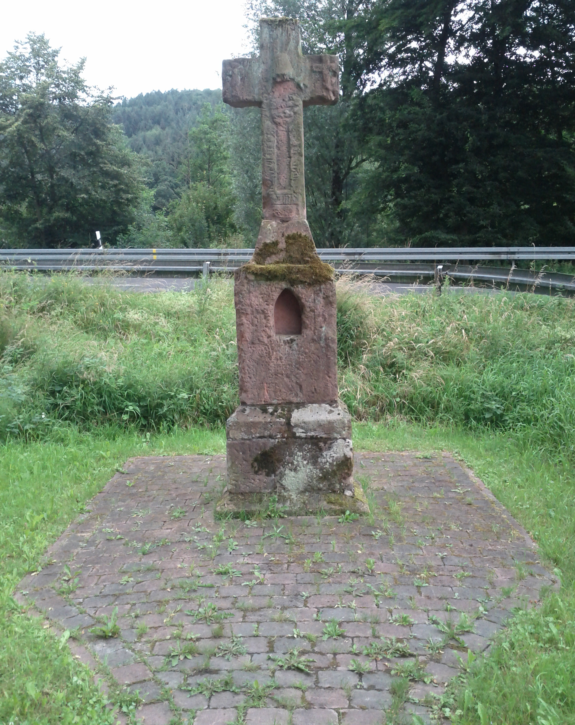 Fulda / Lüdermünd - Schlitz / Hemmen: Memorial